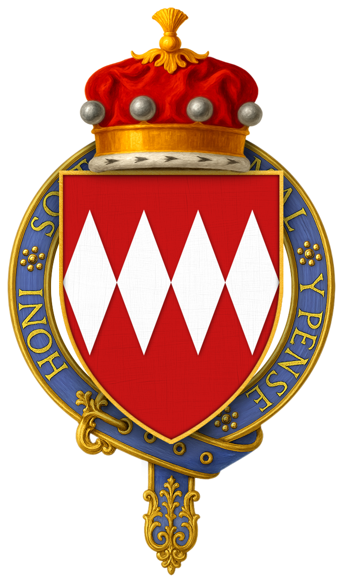 Coat of arms of Sir Giles Daubeny, 1st Baron Daubeny, KG BURKE, Sir Bernard, The General Armory of England, Scotland, Ireland, and Wales: Comprising a Registry of Armorial Bearings from the Earliest to the Present Time, London: Harrison & sons, 1884. “Daubeney or de Albini (Lords Daubeney and Earls of Bridgewater. Summoned to parliament 1295, created earl 1538... Arms in Brampton Church, co. Oxford. Visit. 1574). Gu. four lozenges conjoined in fess ar.”